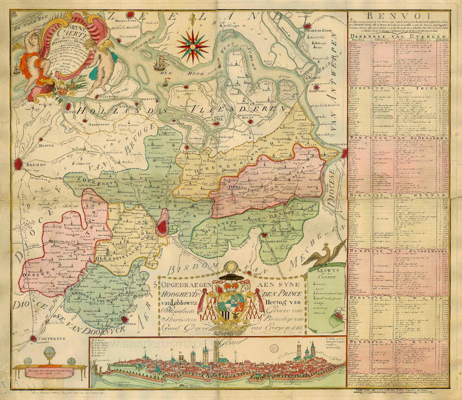 Diocese of Ghent by Devreese L.D., 1789.